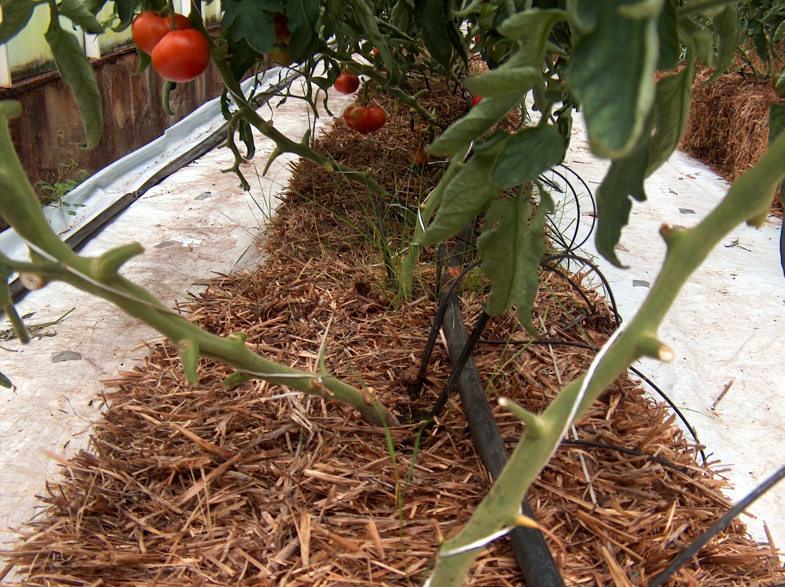 Tomatoes Black magigno hybrid growth by hydroponic on straw bales (from Professional Institute of Agriculture and Environment "Cettolini" Villacidro, Italy)